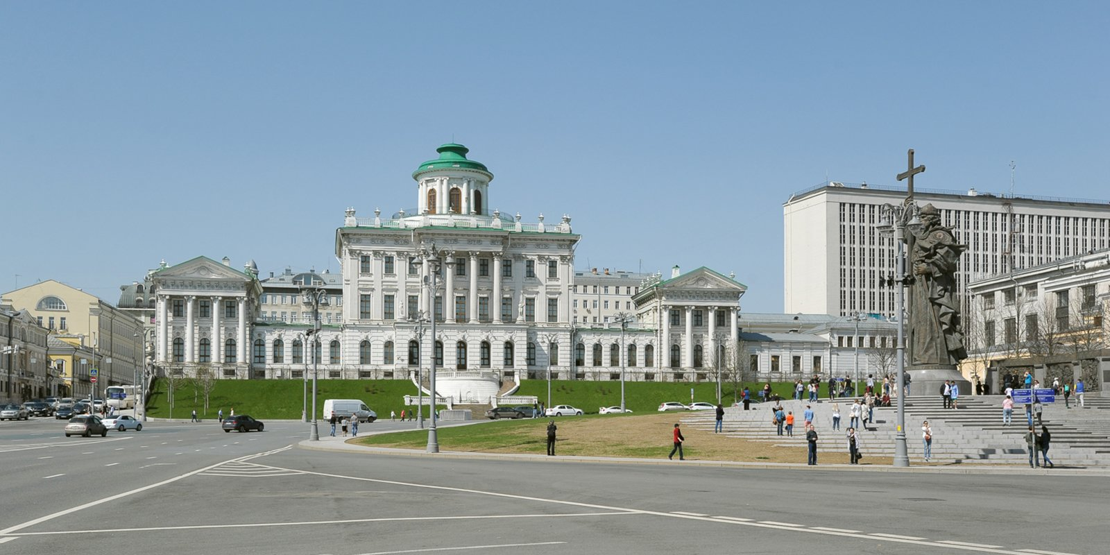 Borovitskaya square in Moscow